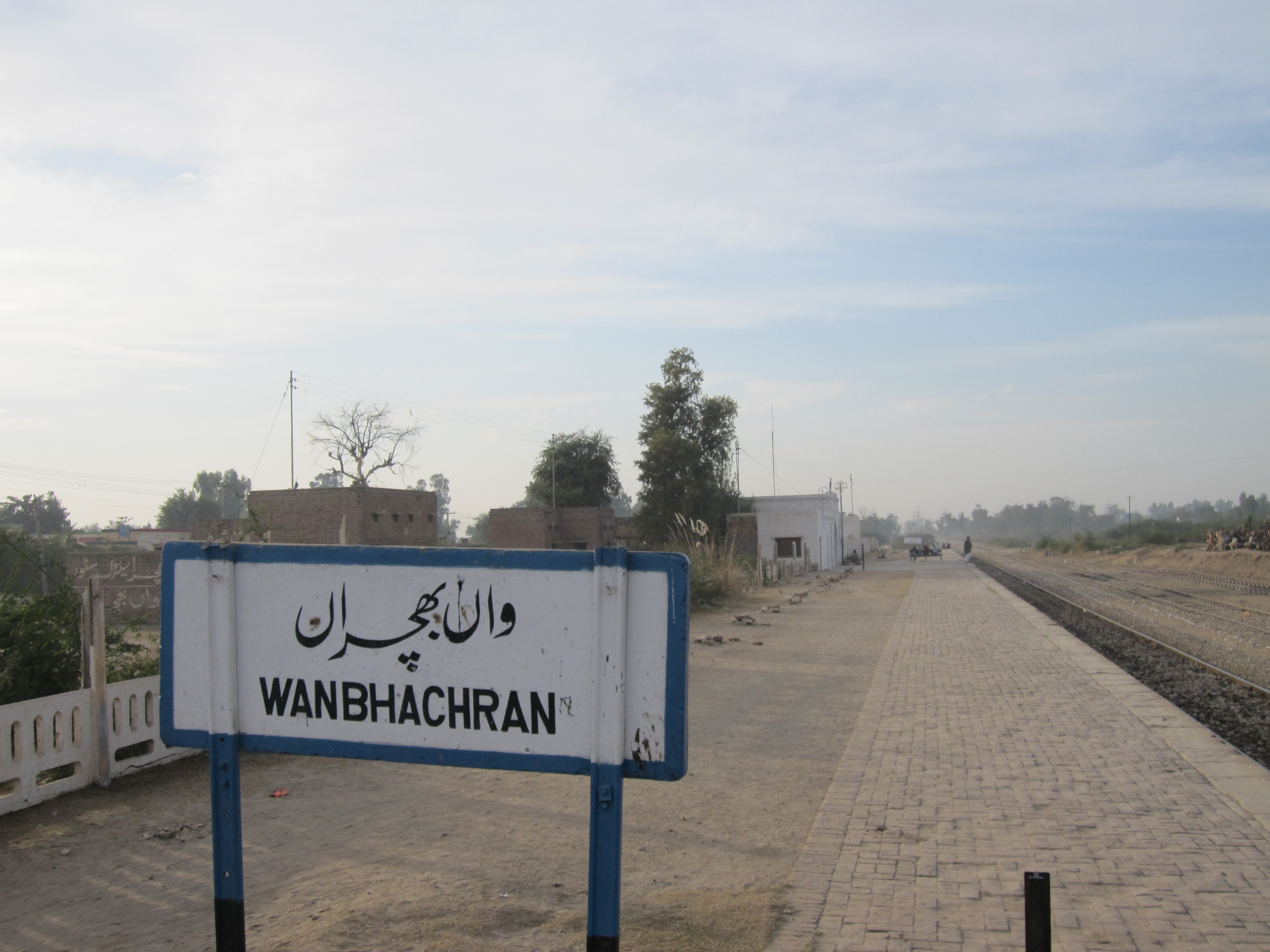 Wan Bhachran Railway Station ... built during the times of the British.jpg